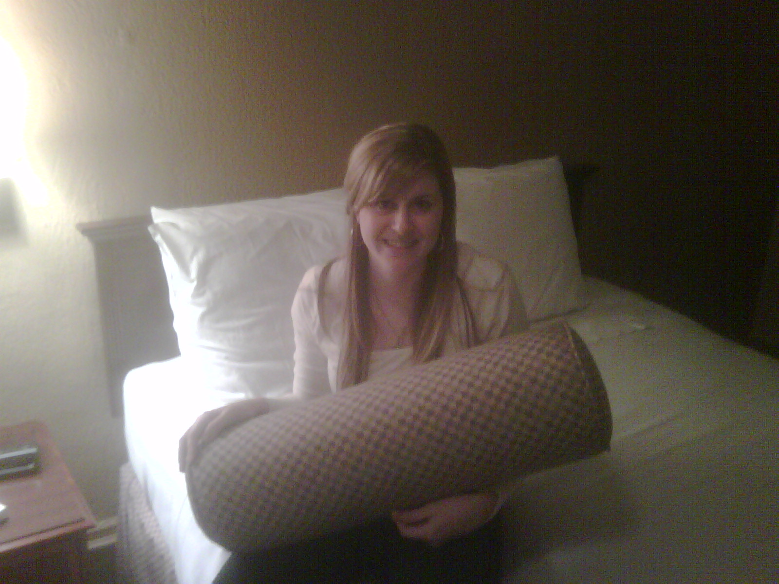 This is an example of a bolster pillow.